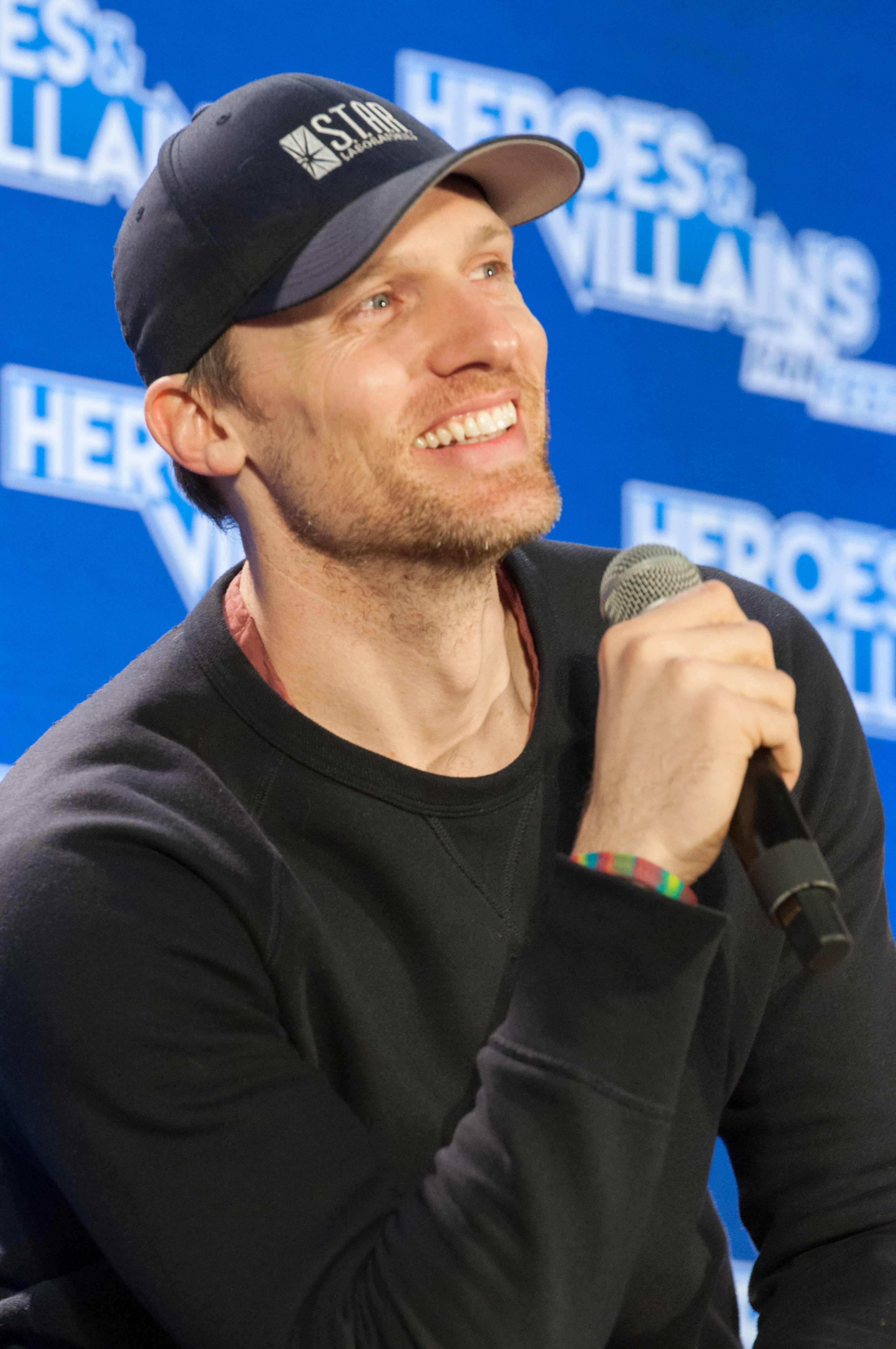 HVFFNYNJFlashALS-47 Robbie Amell and Teddy Sears.